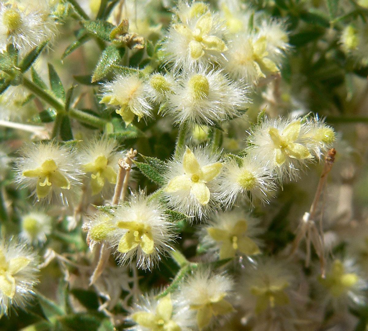 Galium stellatum var. eremicum in the rocks behind the Redstone picnic area, Northshore Road, Lake Mead National Recreation Area, southern Nevada (NNPS field trip)